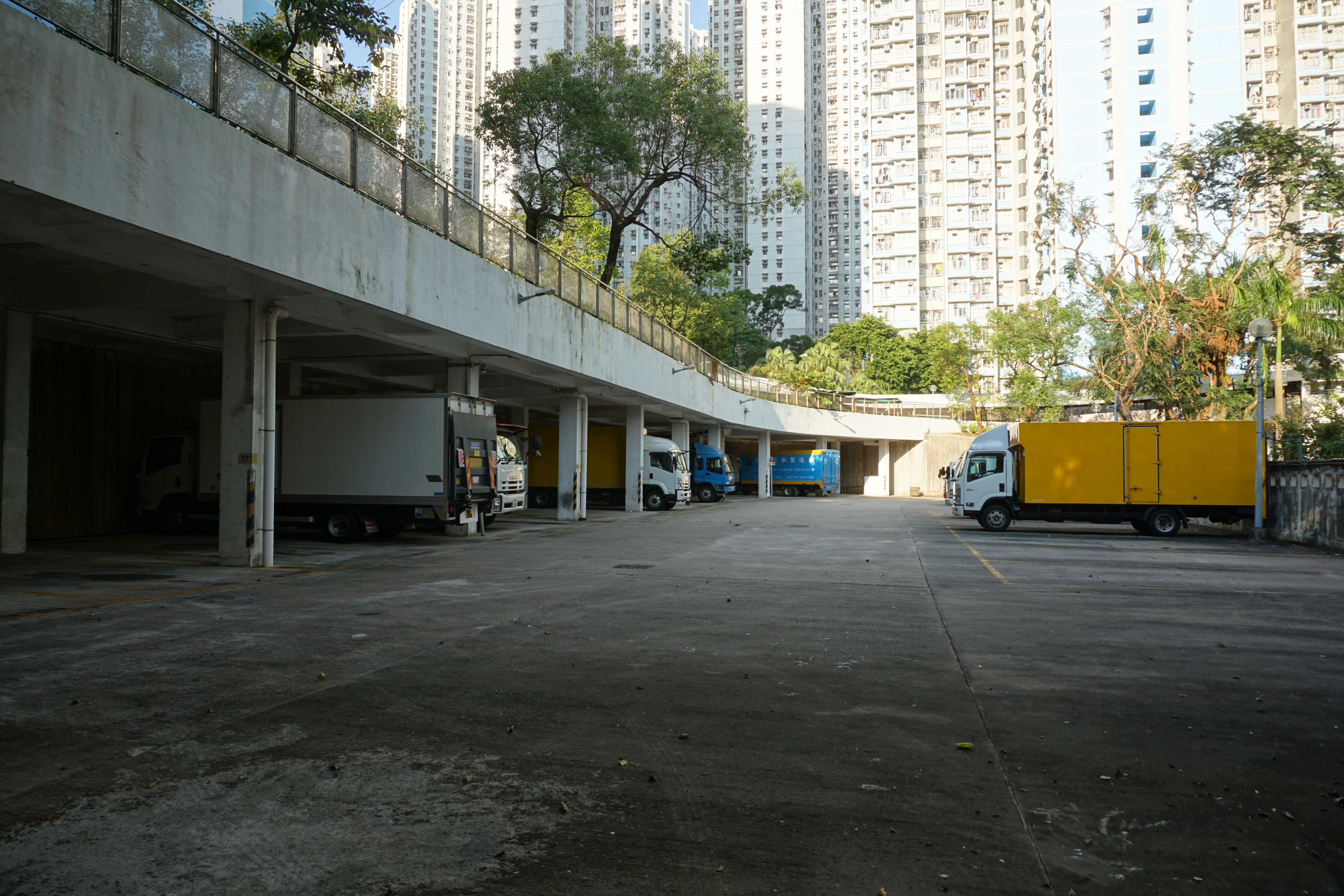 Tsz Lok Estate in Tsz Wan Shan, Hong Kong.